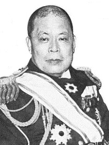 Mineo Osumi